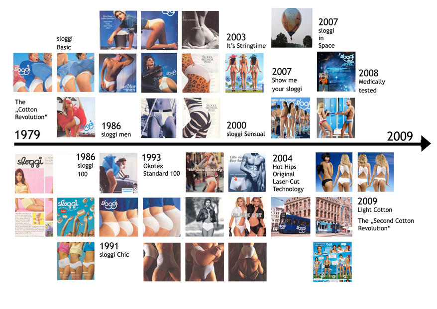 30 years of sloggi timeline